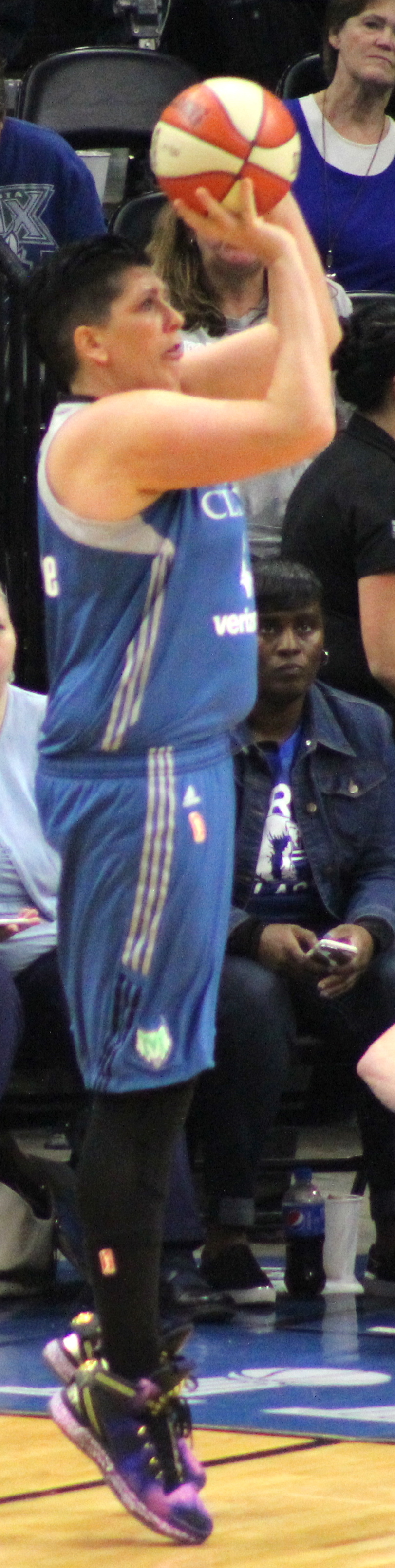 Janel McCarville of the Minnesota Lynx